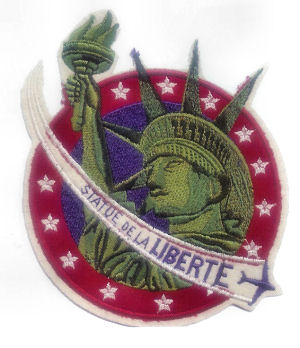 Emblem of the 48th Fighter-Bomber Wing Sep 1954 Source: United States Air Force